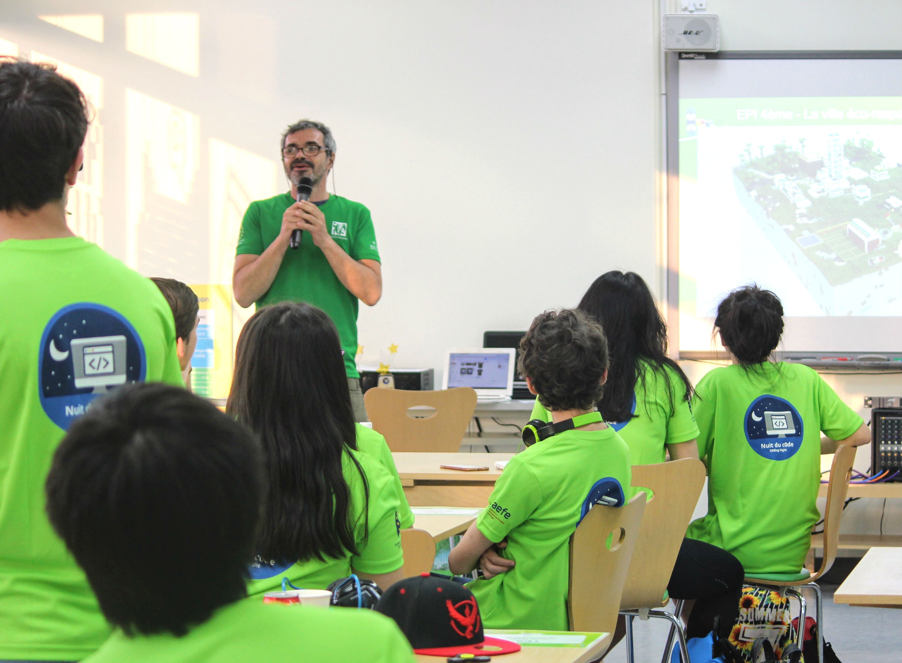 Math teacher Alexis Kauffmann - Lycée français de Taipei - 2017